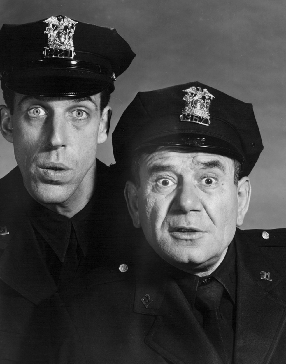 Photo of Fred Gwynne and Joe E. Ross as Muldoon and Toody from "Car 54, Where Are You?".